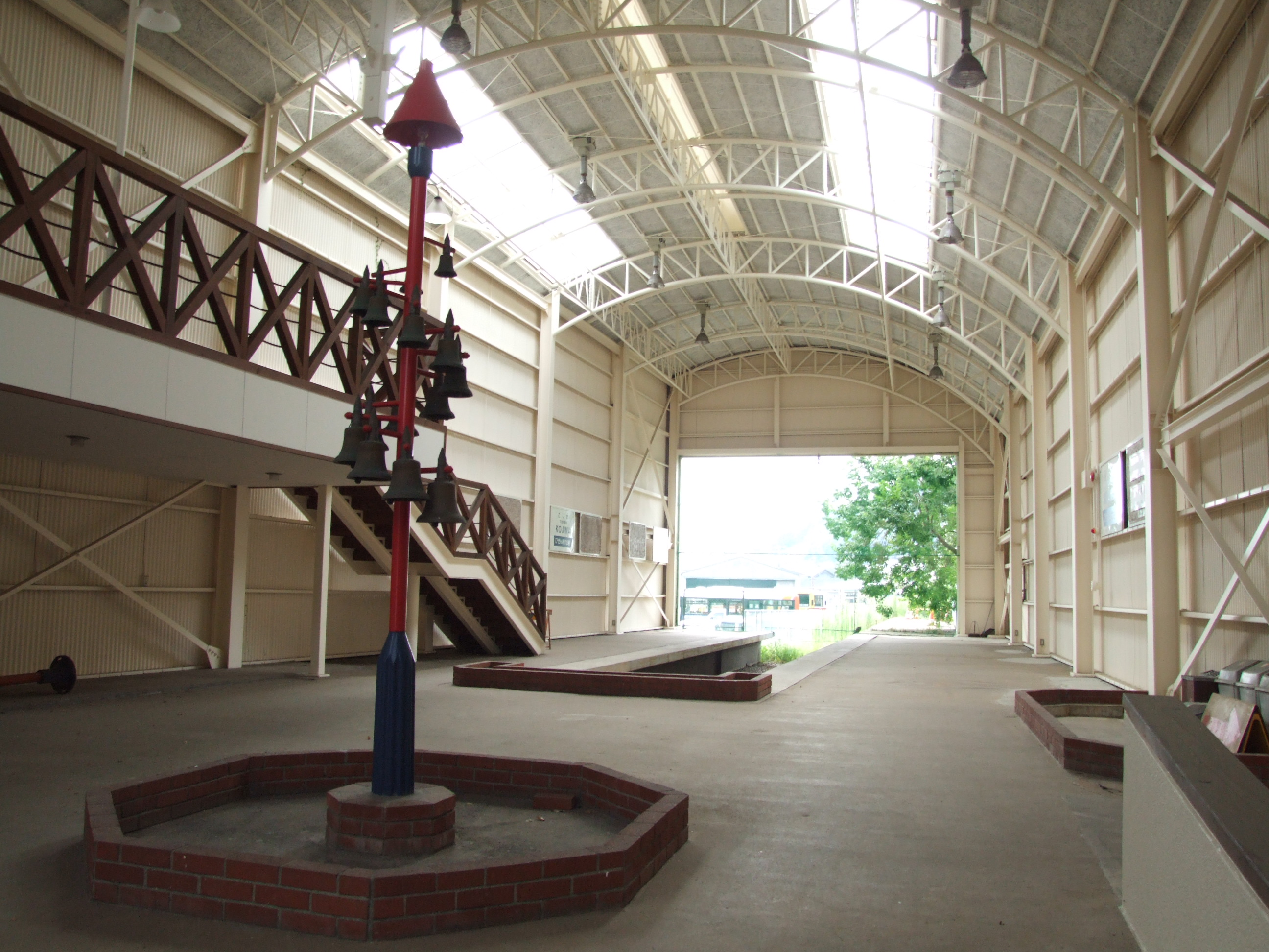 The remains of Kojima Station, Shimotsui Railway on August 20, 2009.